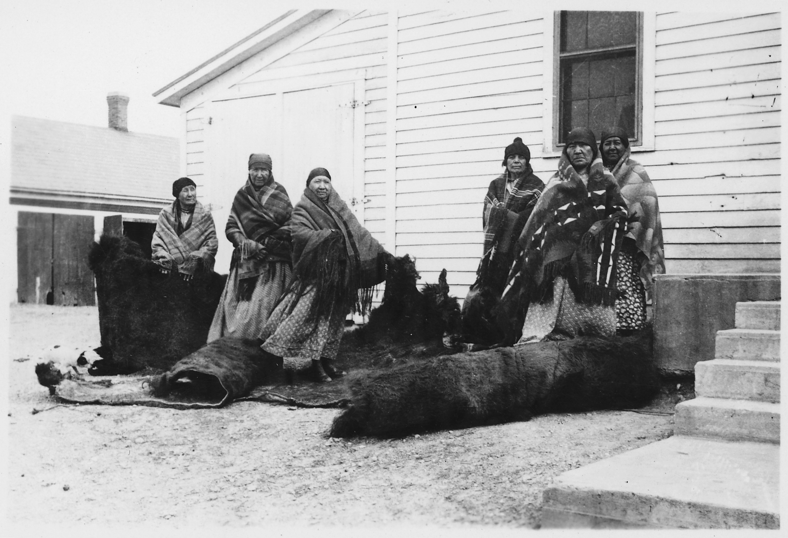 Scope and content: Six blanket-clad Indians stand with the robes.